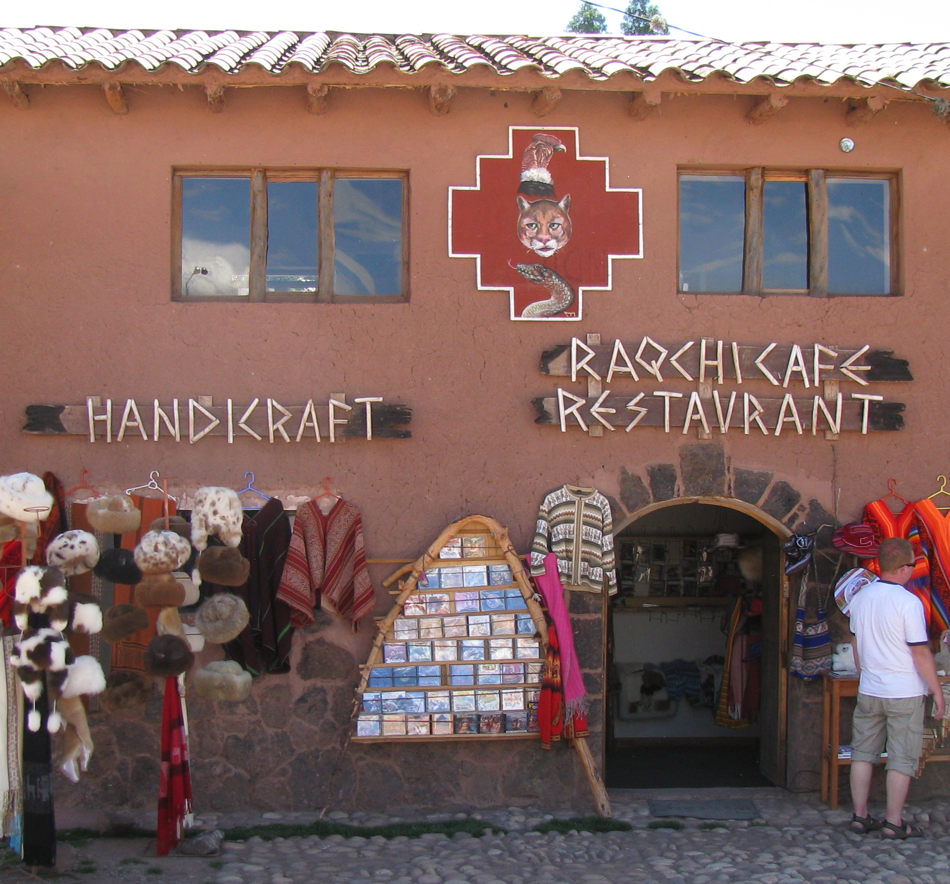 Raqchi